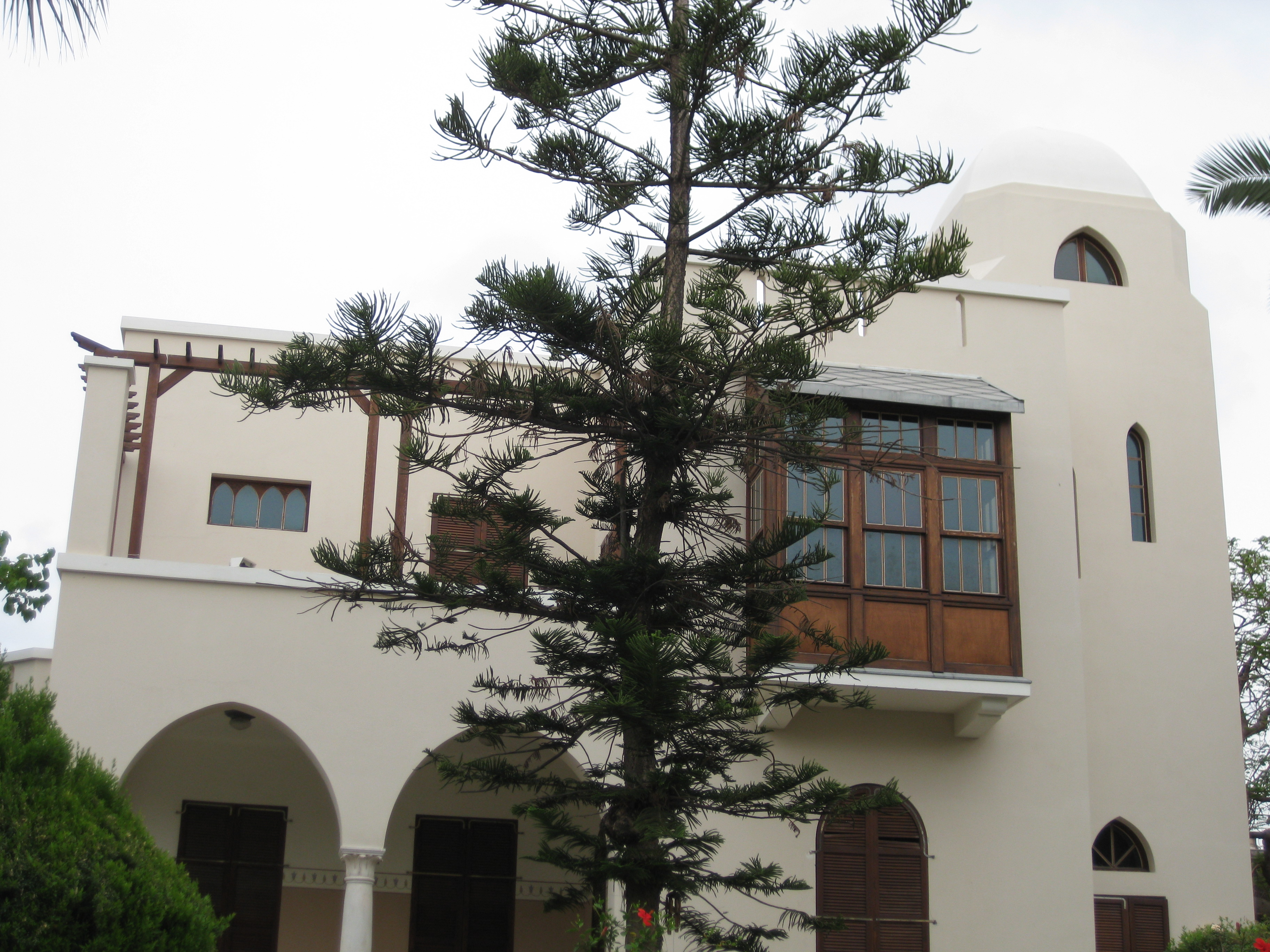 Tel Aviv home of Jewish poet Haim Nahman Bialik. Architect: Yosef Minor, 1924. Address: 22 Bialik street. Tel Aviv.